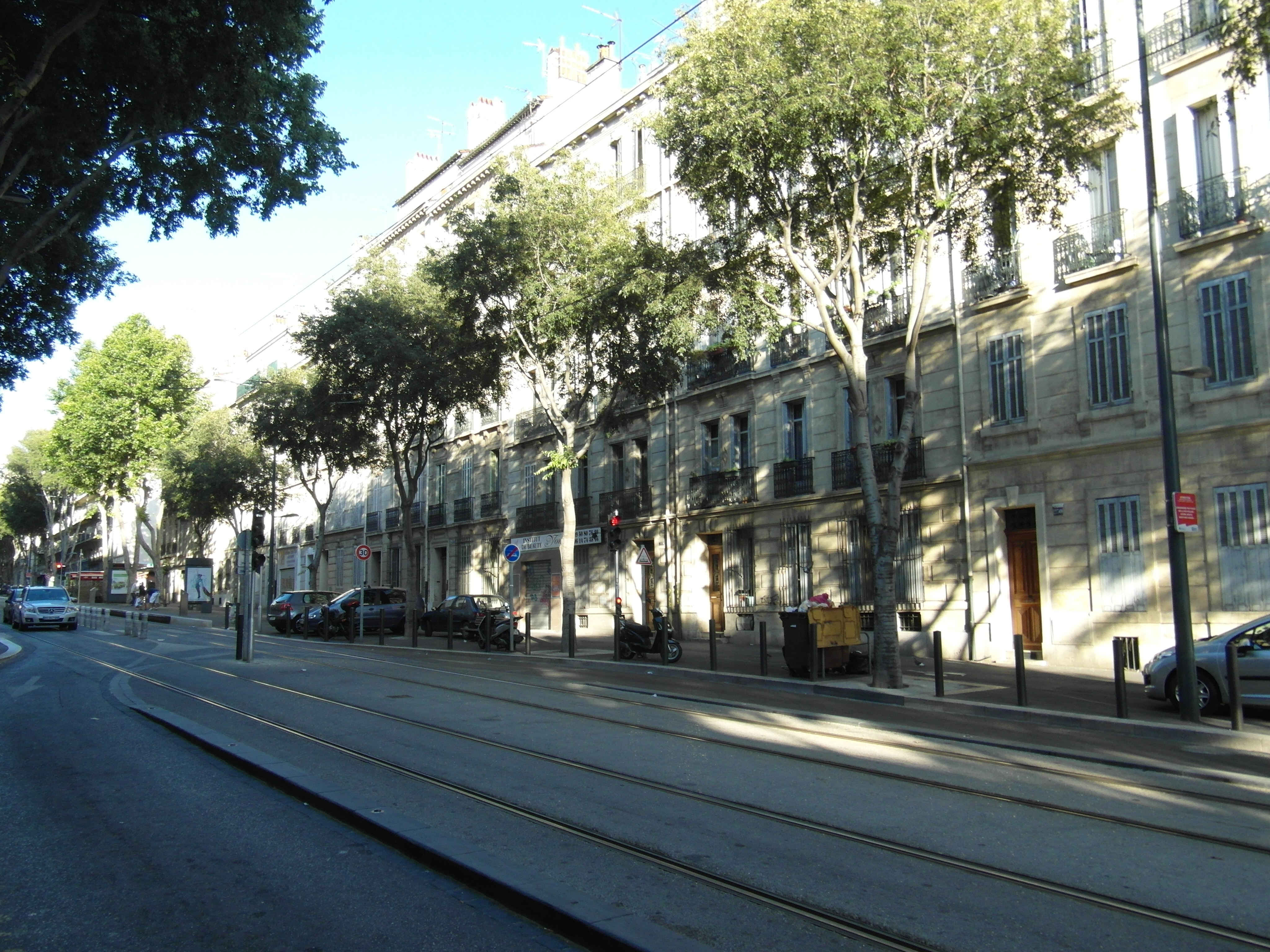 Marseille - Tramway - Boulevard Chave